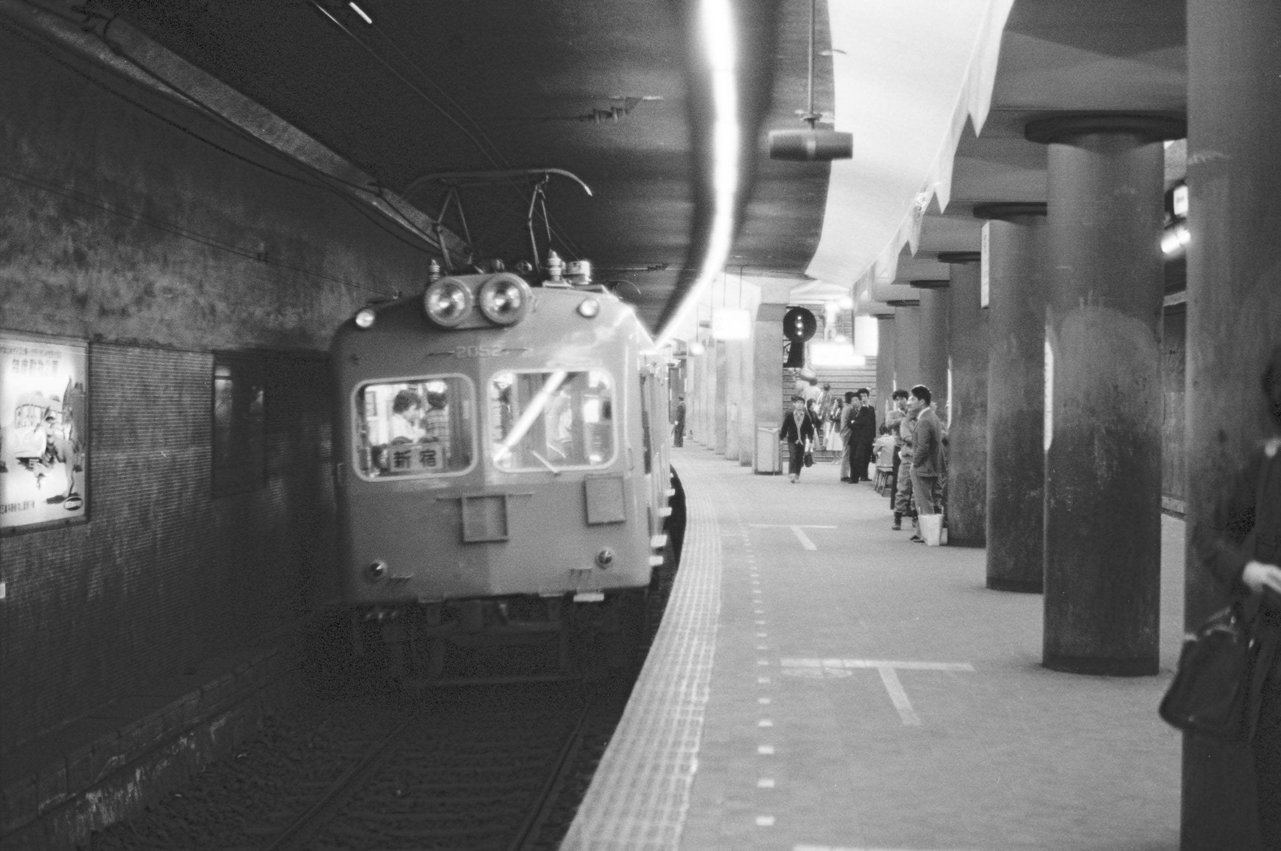 Former Hatsudai Station of Keio Teito Electric Railway of the last day of service.